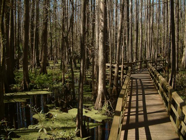 Catwalk through Bald Cypress Swamp at Highlands Hammock State Park, Florida